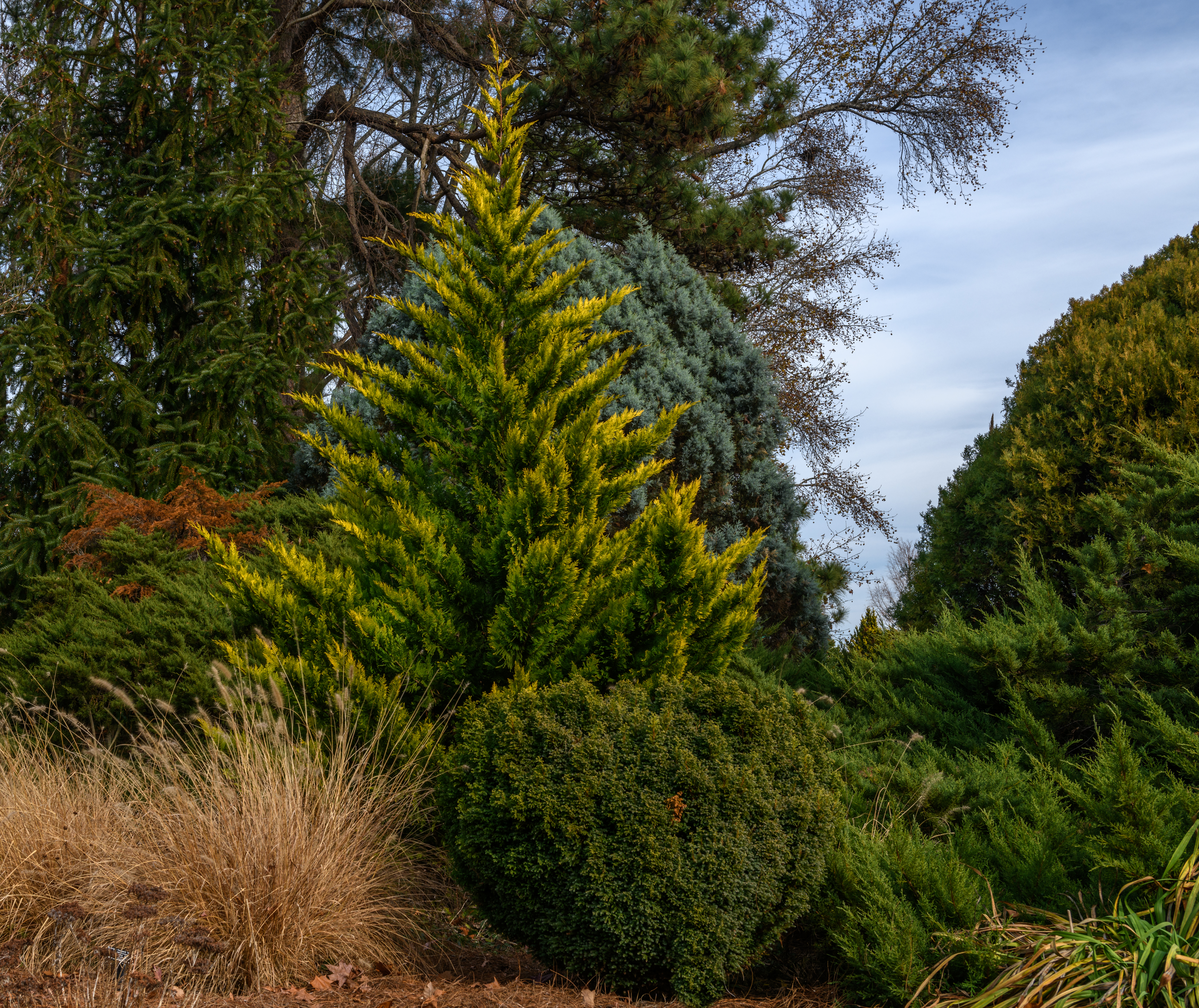 Cupressus × leylandii, Leyland Cypress, 'Gold Rider', at the Norfolk Botanical Garden, Norfolk, Virginia.